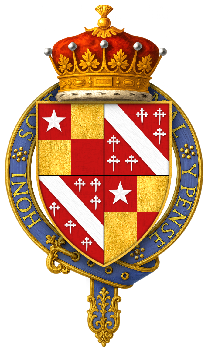 Coat of arms of Sir John de Vere, 13th Earl of Oxford See Oxford's stall plate, still intact, within its original stall at St. George's Chapel - arms are quarterly: 1 and 4, quarterly gules and or, in the first quarter a mullet argent (for De Vere); 2 and 4, gules a bend between six cross crosslets fitchy argent (for Howard)